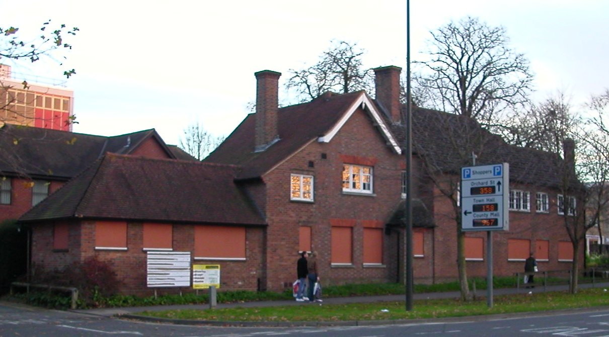 Tree House, 103 High Street, Crawley, West Sussex, England. The oldest building in Crawley town centre, and the former manor house. Now disused, but still owned by Crawley Borough Council. Timber-framed with brick exterior. Built in the early 14th century; several extensions since then. Listed at Grade II by English Heritage (ref #363351)